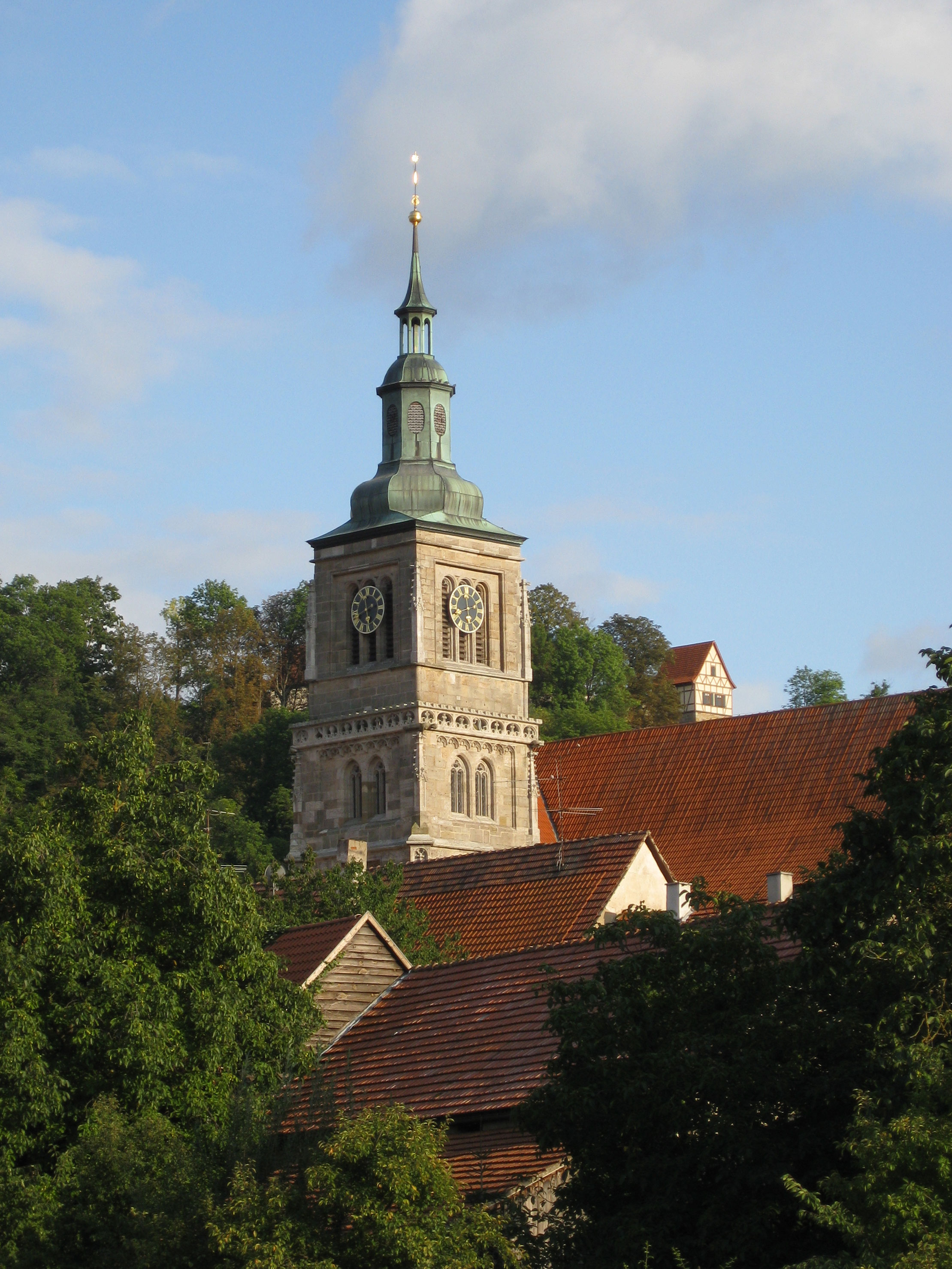 picture showing the church and a part of the castle of Königsberg i. Bay., Germany